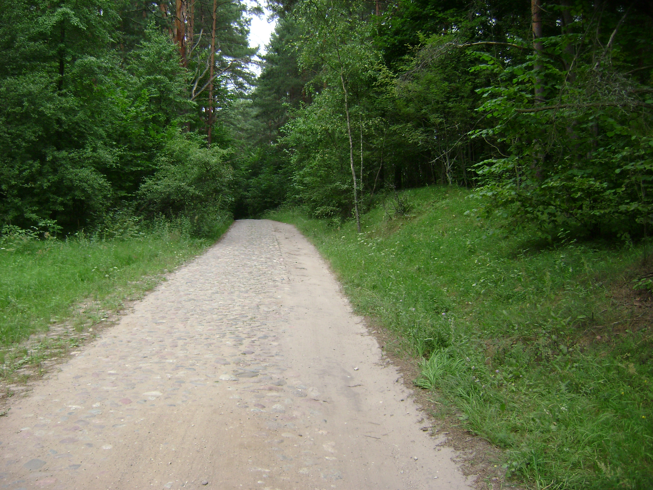 Poland. Gmina Pasym. Forest